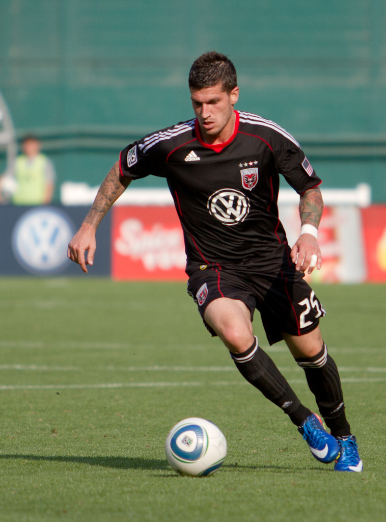 D.C. United midfielder, Santino Quaranta dribbles the ball during a match against AFC Ajax on May 22, 2011 at RFK Stadium in Washington, D.C..